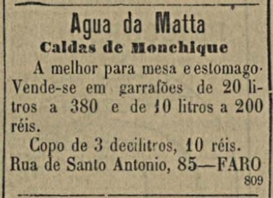 Advertisement for the company Agua da Matta, that sold bottled water from the Monchique Spa, in Portugal. This image was published on the O Algarve newspaper No. 277, of the 13th July 1913, scanned by the Hemeroteca Municipal de Lisboa.